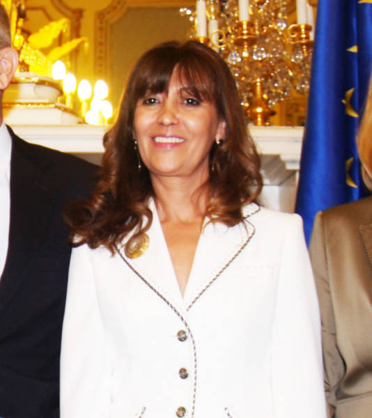 Spanish politician Dolores Carrion